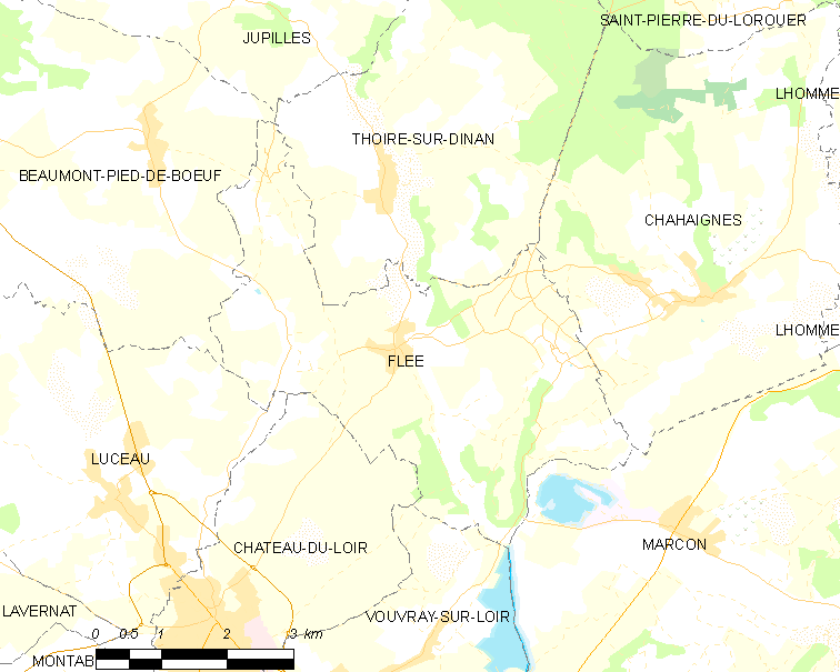 Map of French municipality